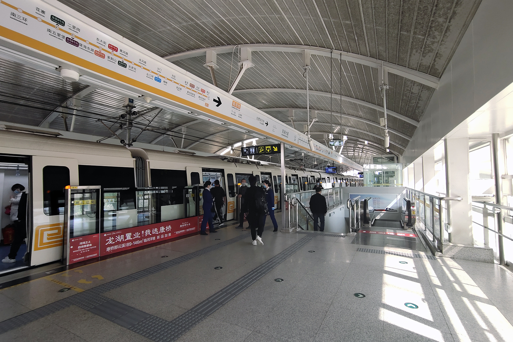 East Platform of Shuanghudadao Station